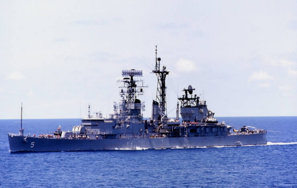 The U.S. Navy guided missile cruiser USS Oklahoma City (CLG-5) in the Sea of Japan, August 1974.